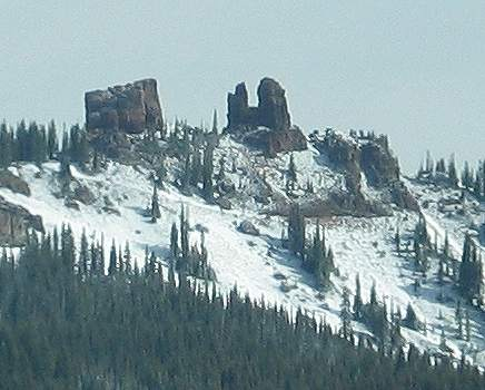 A view to Rabbit Ears Pass, Colorado, from US 40. Taken and submitted by Mike Coffey.